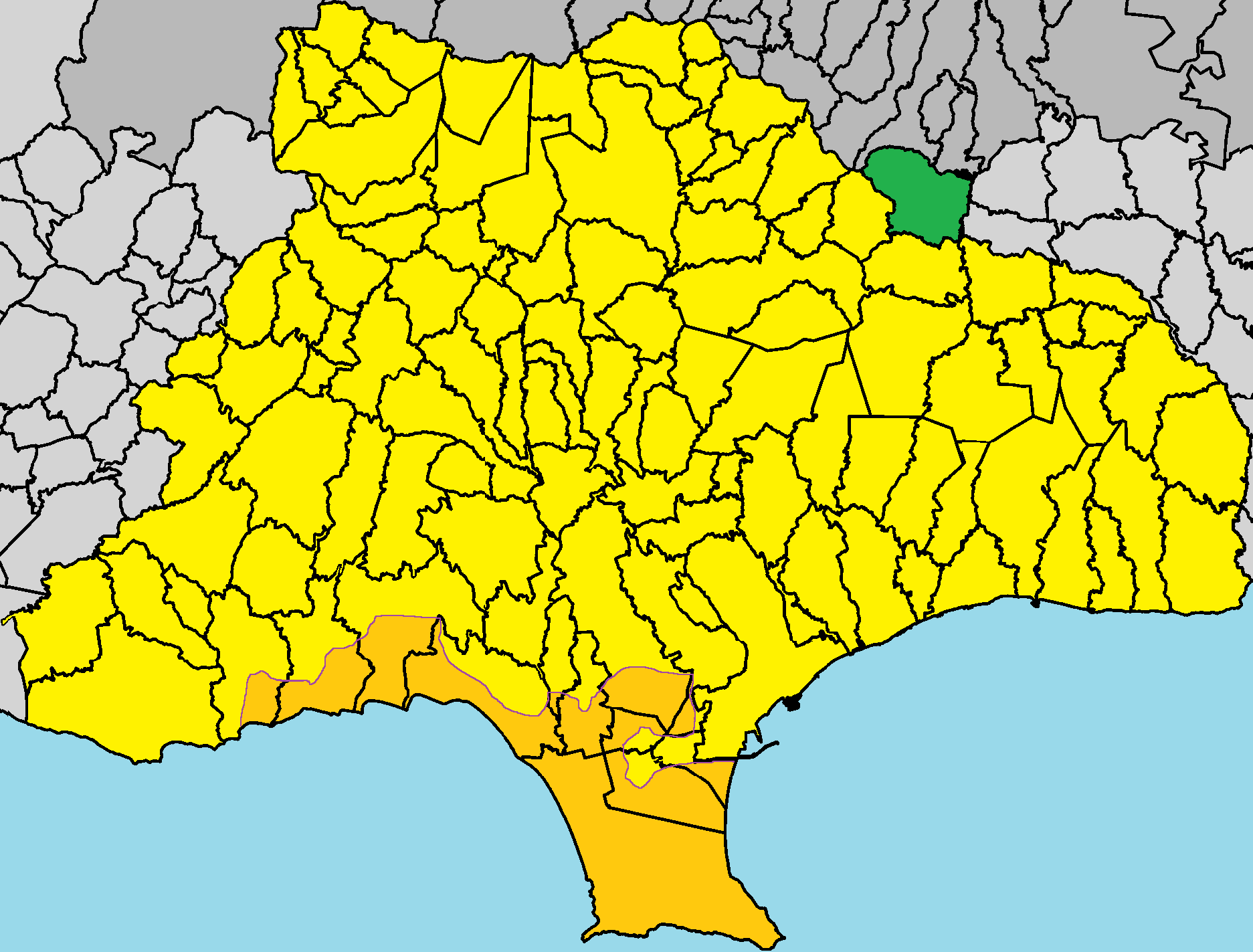 Sykopetra in Limassol District.